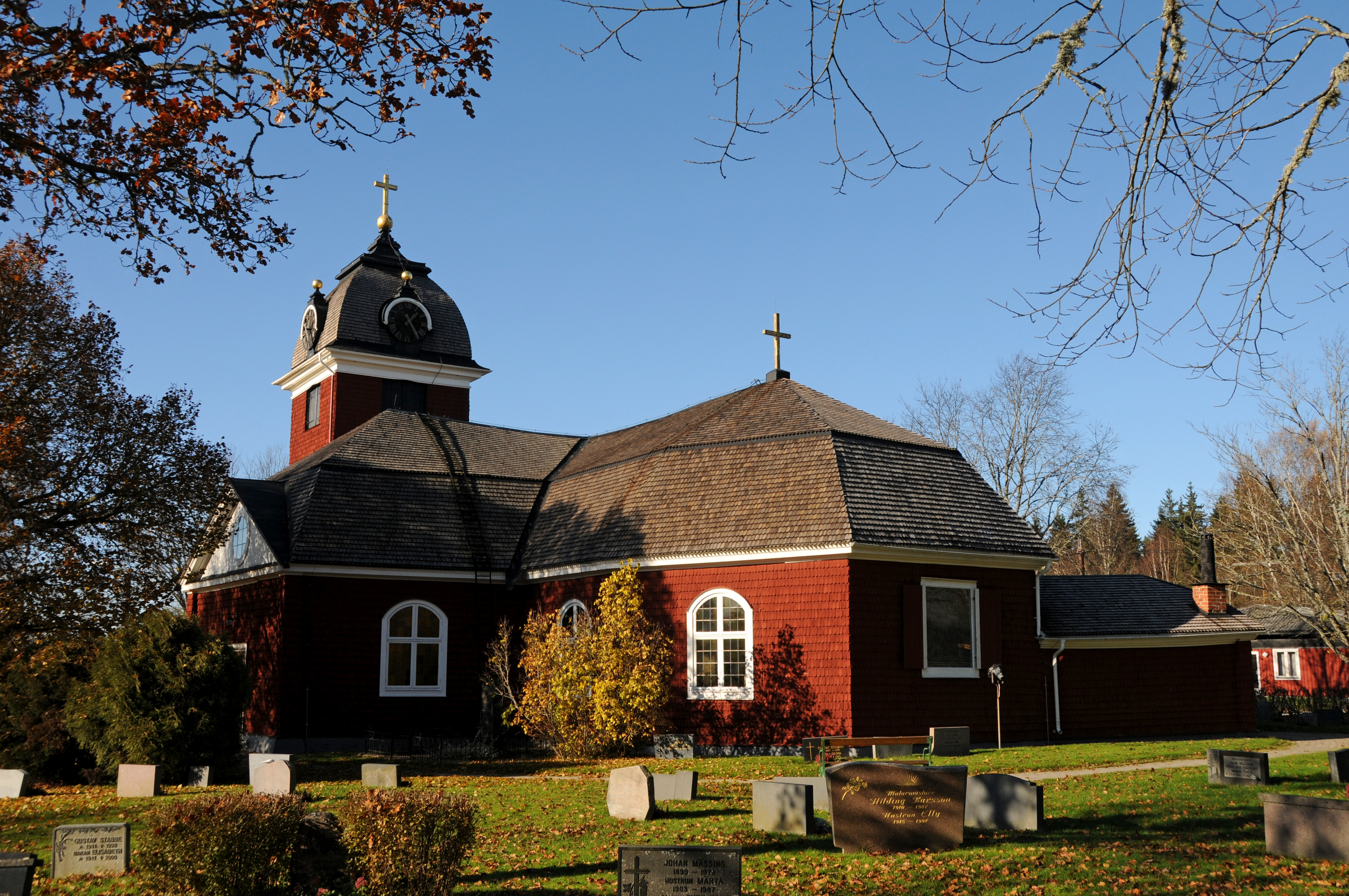 Hjulsjö Church